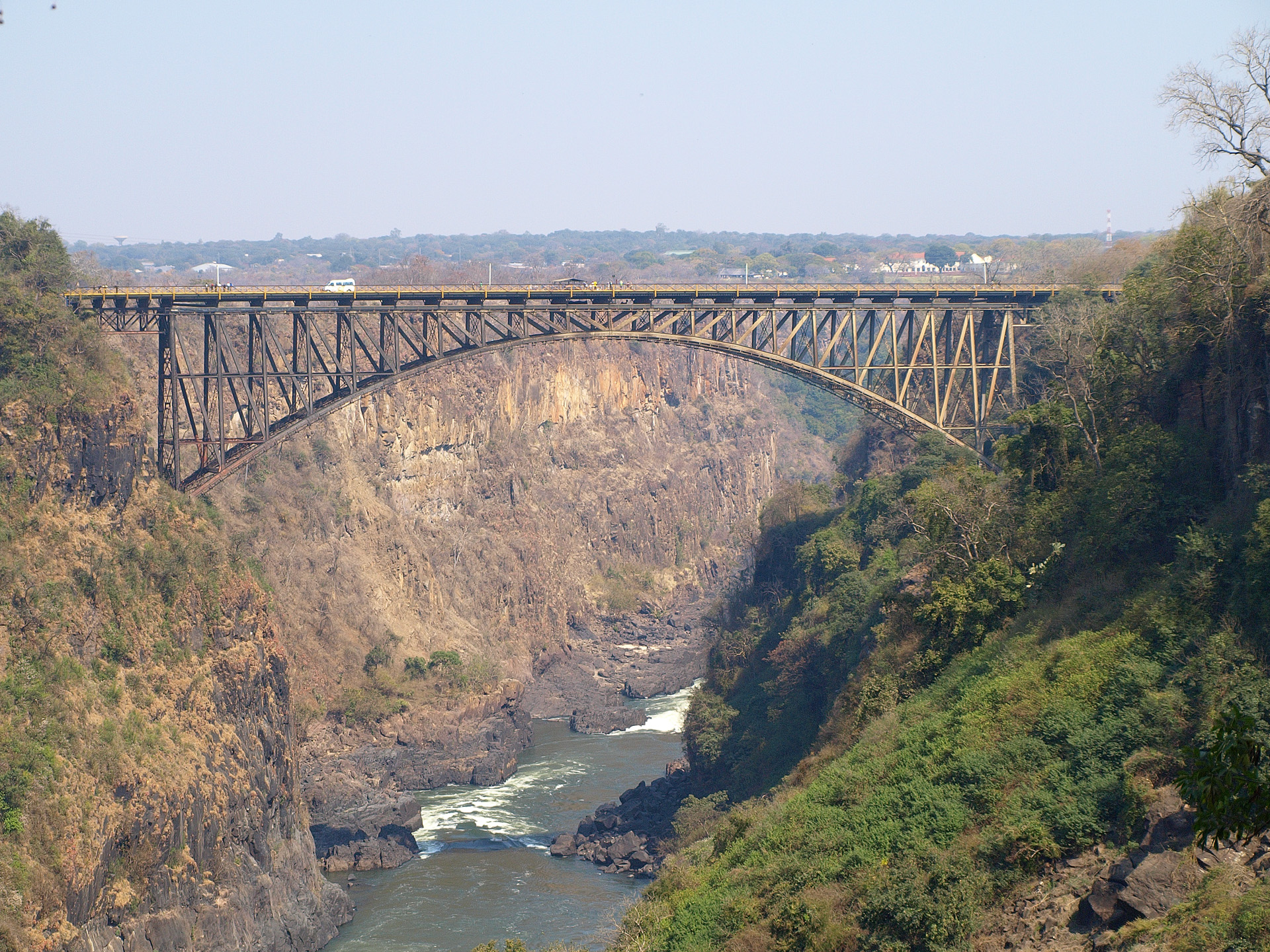 Victoria Falls Bridge from North (from Zambia side).jpg